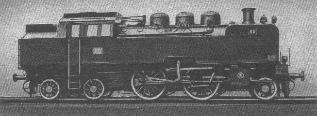 Locomotive Tk of Lithuania (built in 1932 by Skoda)